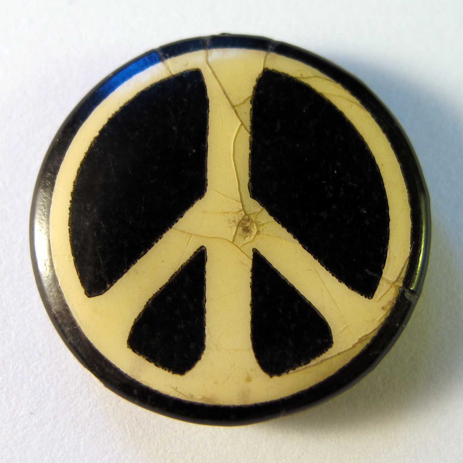 Small-sized round badge, displaying the logo of the Campaign for Nuclear Disarmament, 1960s.